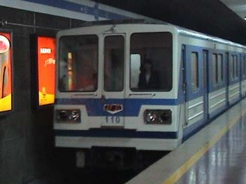 Train of the Beijing Subway, line 2